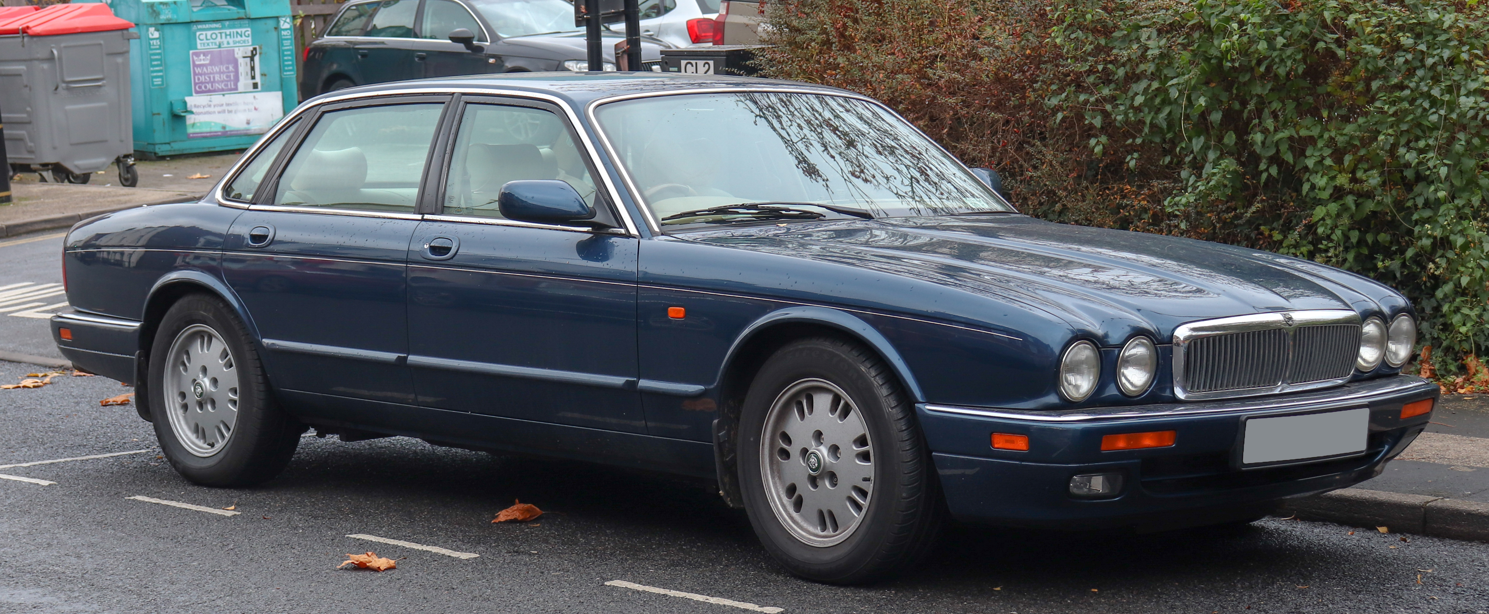 1996 Jaguar XJ6 3.2 Front Taken in Leamington Spa